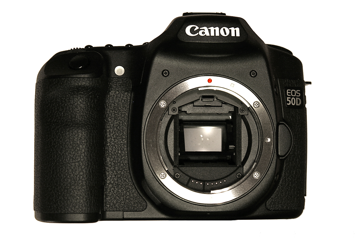 front of the Canon EOS 50D